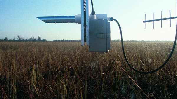 A an example of a humidity and temperature sensor combination